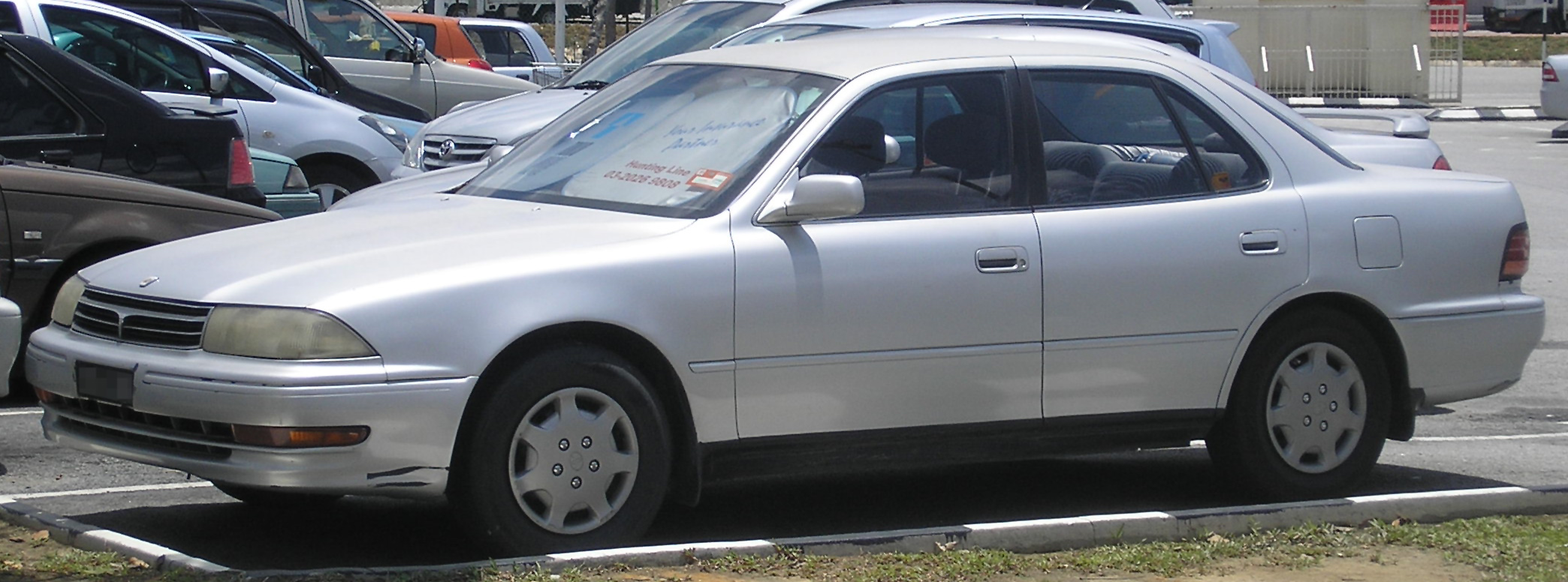 Front quarter view of a third generation, Japanese 1992–1994 Toyota Camry (V30) in Serdang, Selangor, Malaysia. This Camry model is uncommon in Peninsular Malaysia, and bears East Malaysian license plates.